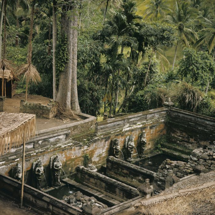 Bathing place at the Pura Goa Gajah or Elephant Cave